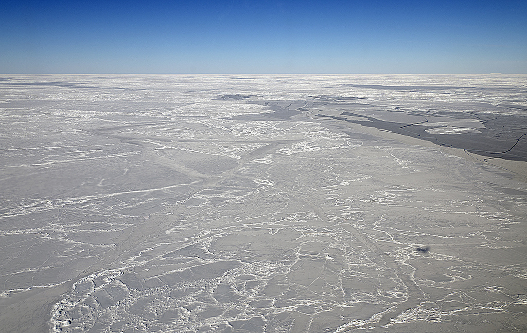 Scarred and chiseled sea ice in the Weddell Sea, where the DC-8 followed in CryoSat-2's tracks on Thursday's IceBridge flight. The DC-8's shadow appears as a dark speck in the lower right. Operation IceBridge is designed to record changes to Antarctica's ice sheets and give scientists insight into what is driving those changes. Follow the progress of the mission: Campaign News site: [1] IceBridge blog: NASA image use policy NASA Goddard Space Flight Center enables NASA’s mission through four scientific endeavors: Earth Science, Heliophysics, Solar System Exploration, and Astrophysics. Goddard plays a leading role in NASA’s accomplishments by contributing compelling scientific knowledge to advance the Agency’s mission.